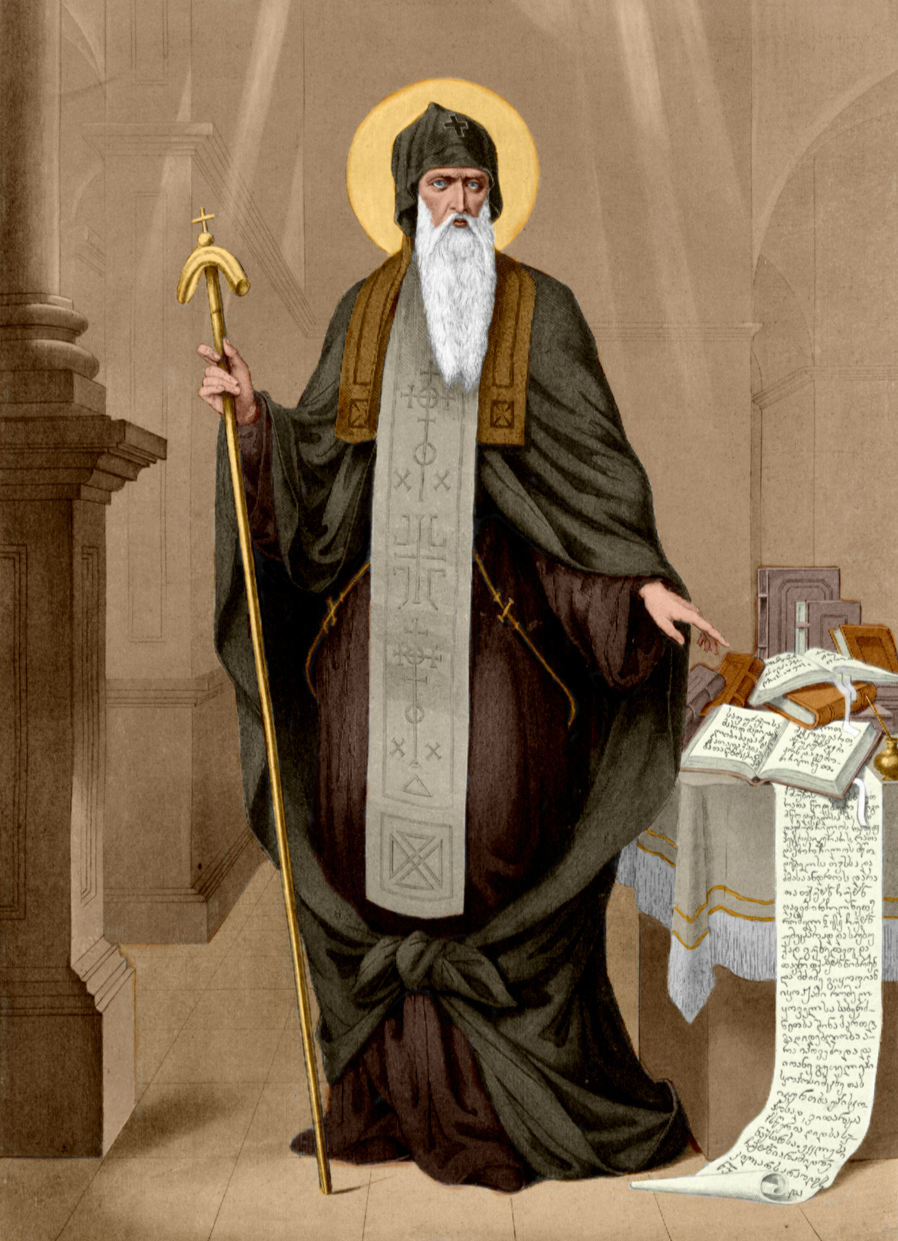 Colourised version of Sabinin's George the Hagiorite, a 11th-century Georgian monk